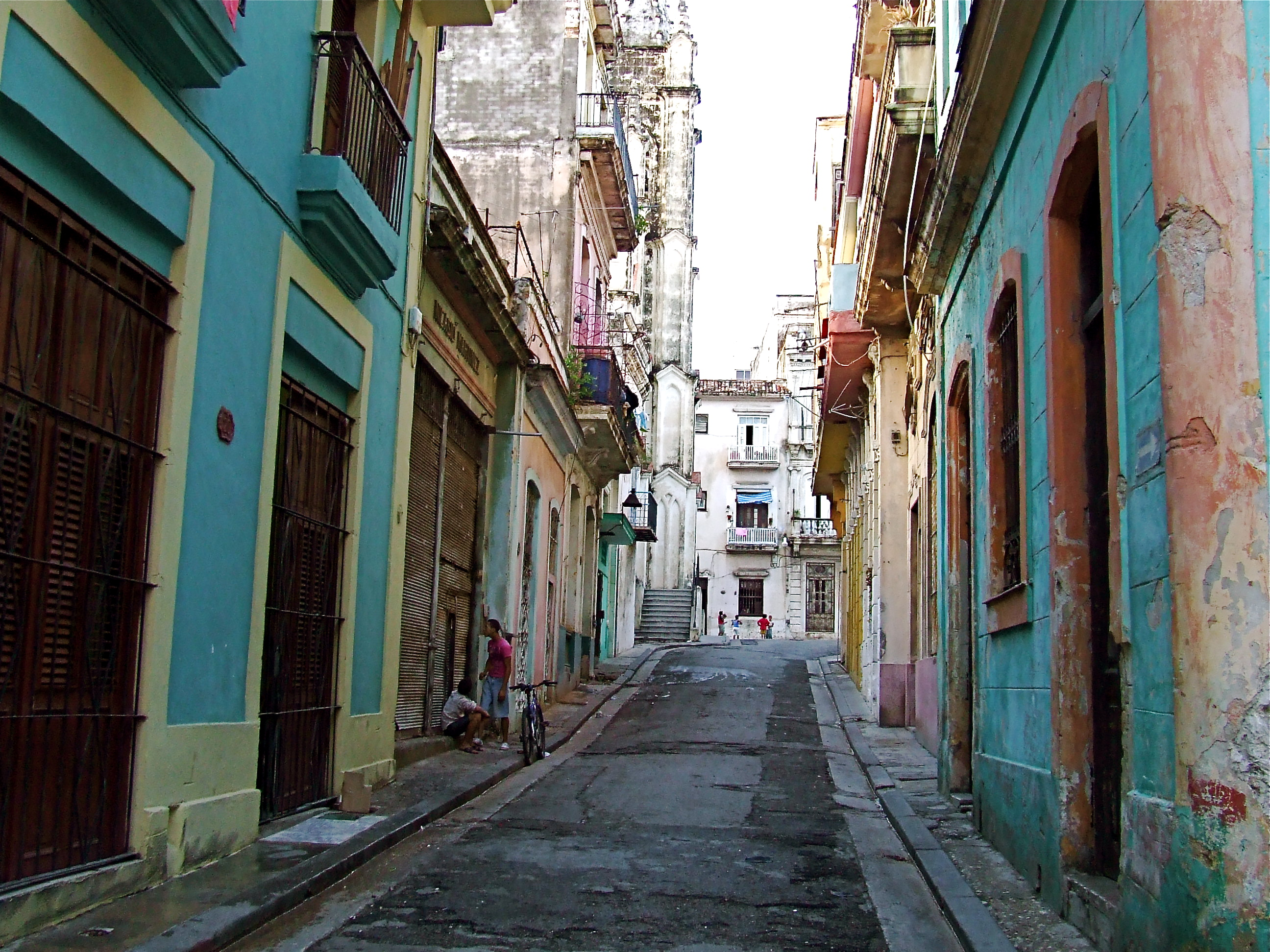 Street in the Old Town, Havana, (La Habana Vieja) Cuba